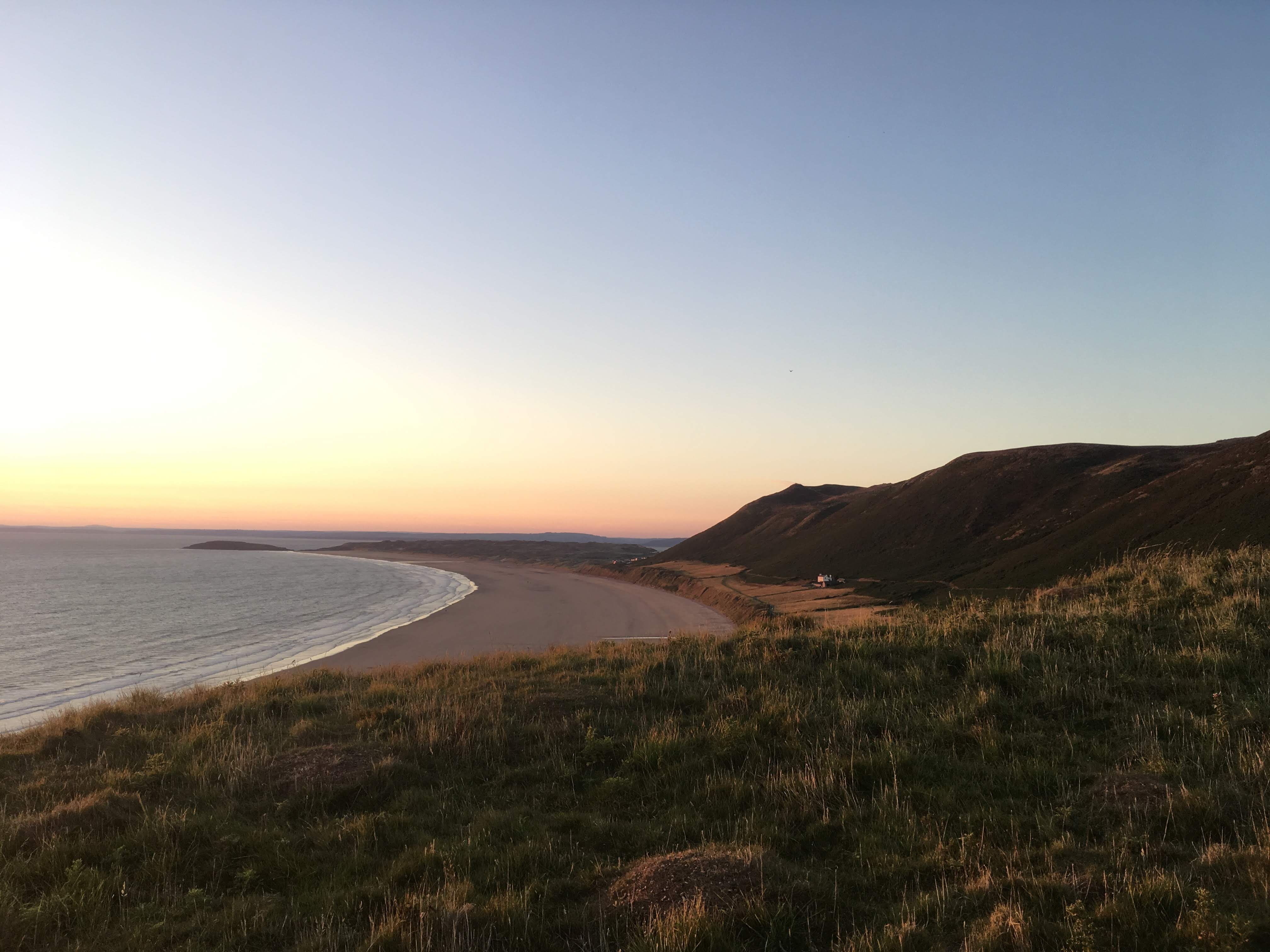 Photograph of a sunset taken at Rhossili bay from the car park.